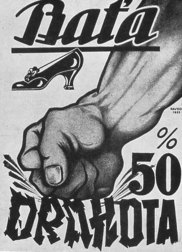 Bata 50% Drahota poster (1922)